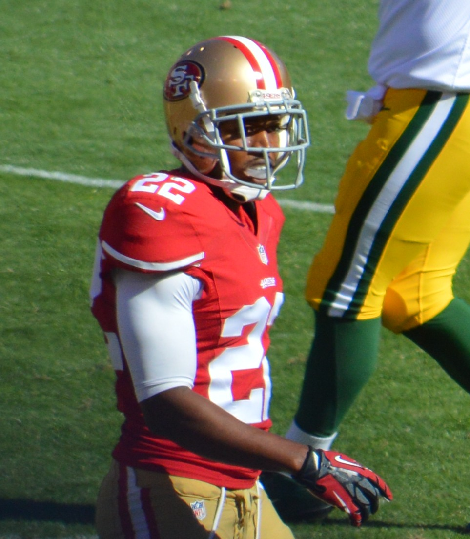 San Francisco 49ers cornerback, Carlos Rogers, in a game against the Green Bay Packers.